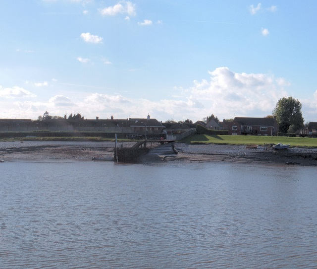 Lynn Ferry - west bank A view of the west bank of the River Great Ouse and the Lynn Ferry jetty.